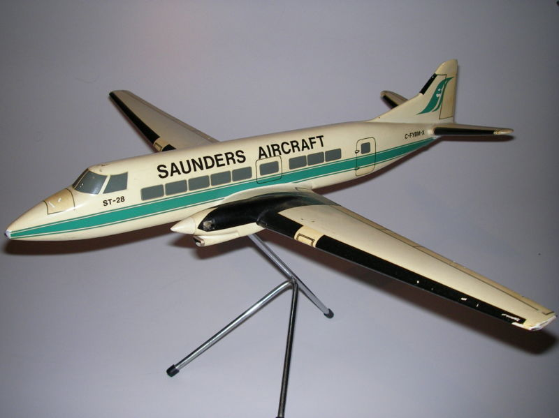 Saunders ST-28 factory "desk" model.